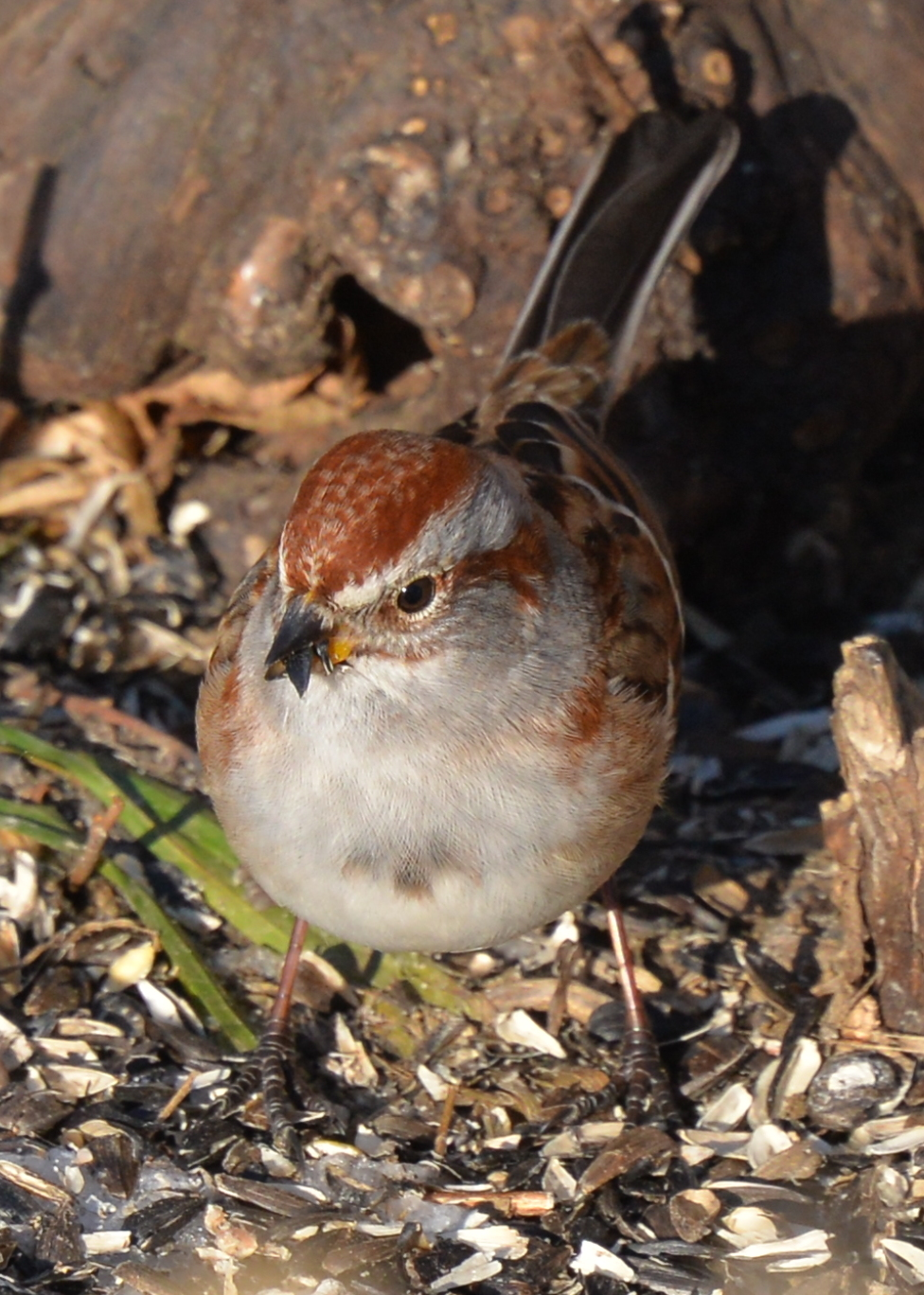 American tree sparrow (Spizelloides arborea) in Lambton Woods park, Toronto